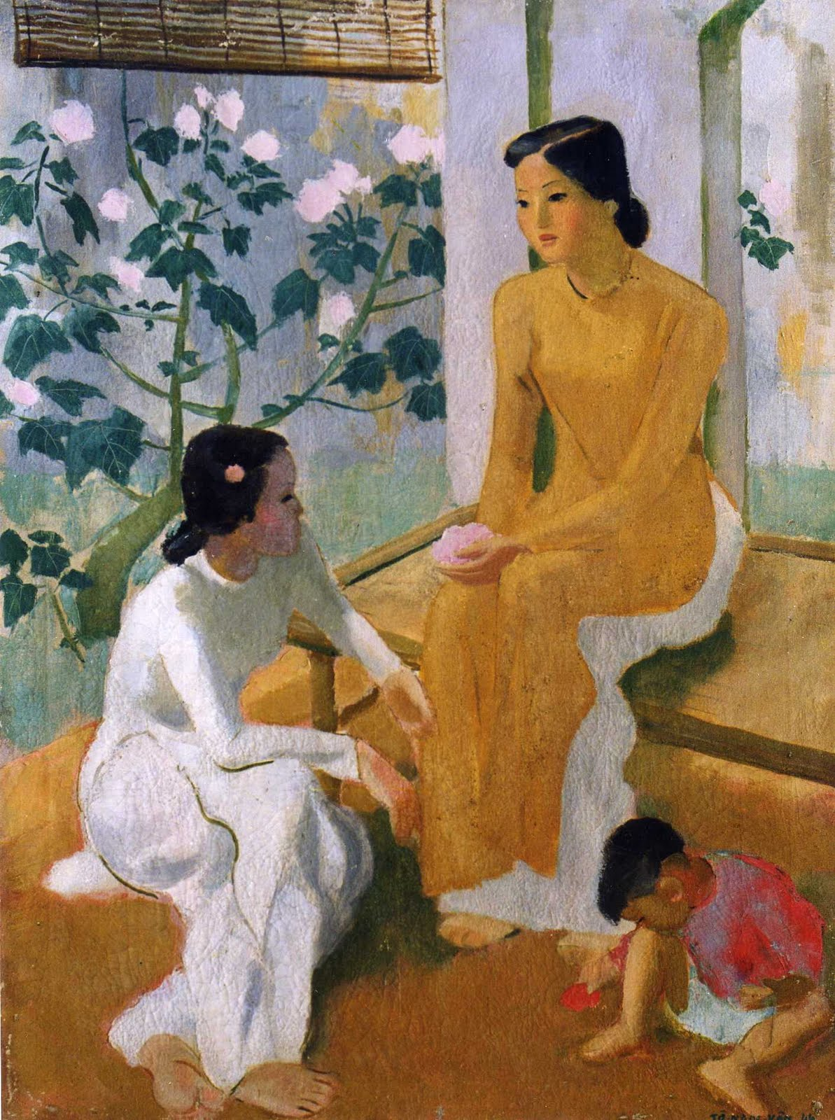 Photo of "Two girls and a child", painter To Ngoc Van, 1944, Oil on canvas, 101 x 78.4 cm. National treasury no. 65 of Vietnam